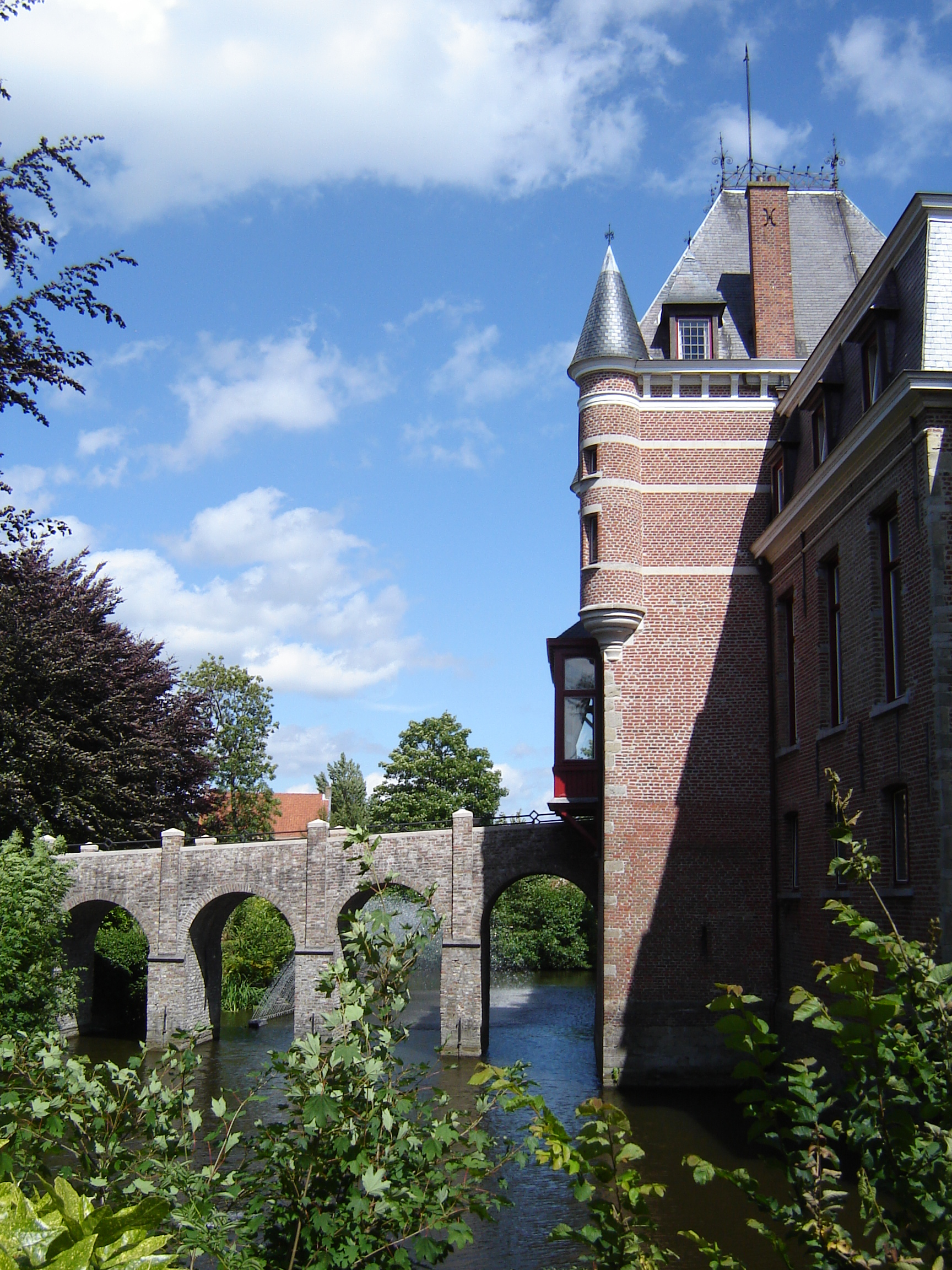 "Kasteel van Moerkerke" (Moerkerke Castle) in Moerkerke. Moerkerke, Damme, West Flanders, Belgium